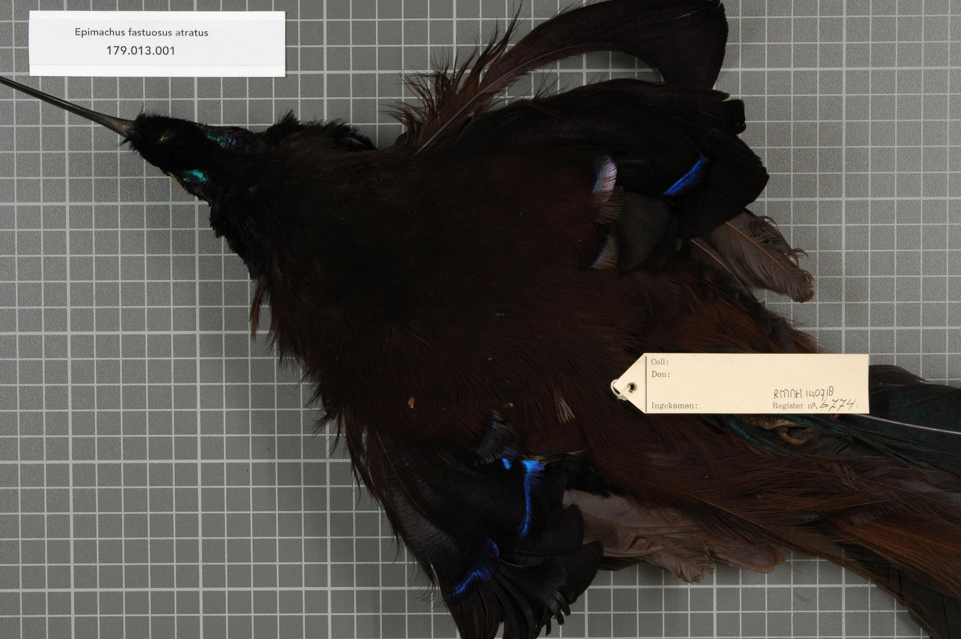 Epimachus fastuosus atratus (Rothschild and Hartert, 1911)